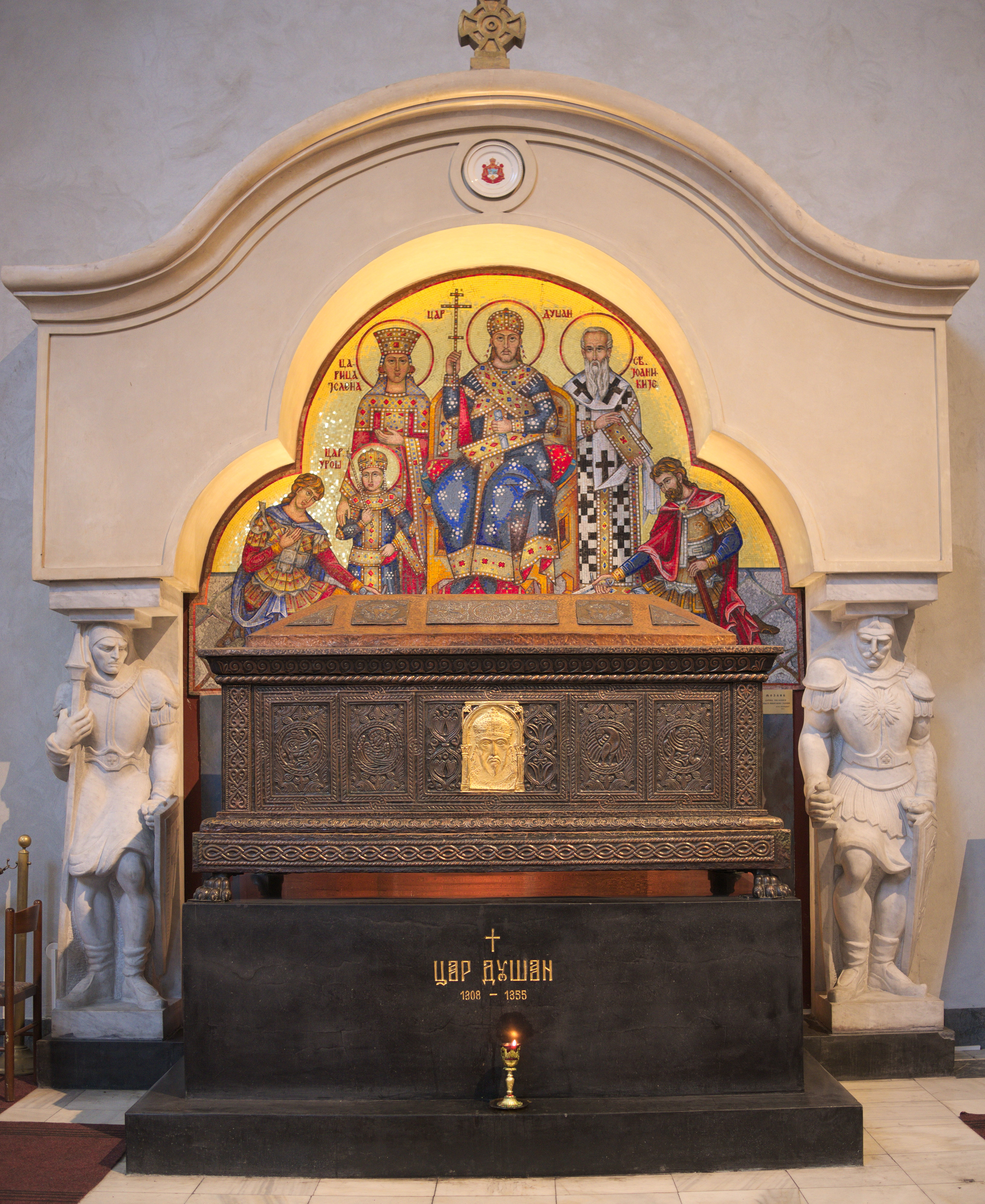 Stefan Dušan 's sarcophagus in church St. Mark, Belgrade, Serbia